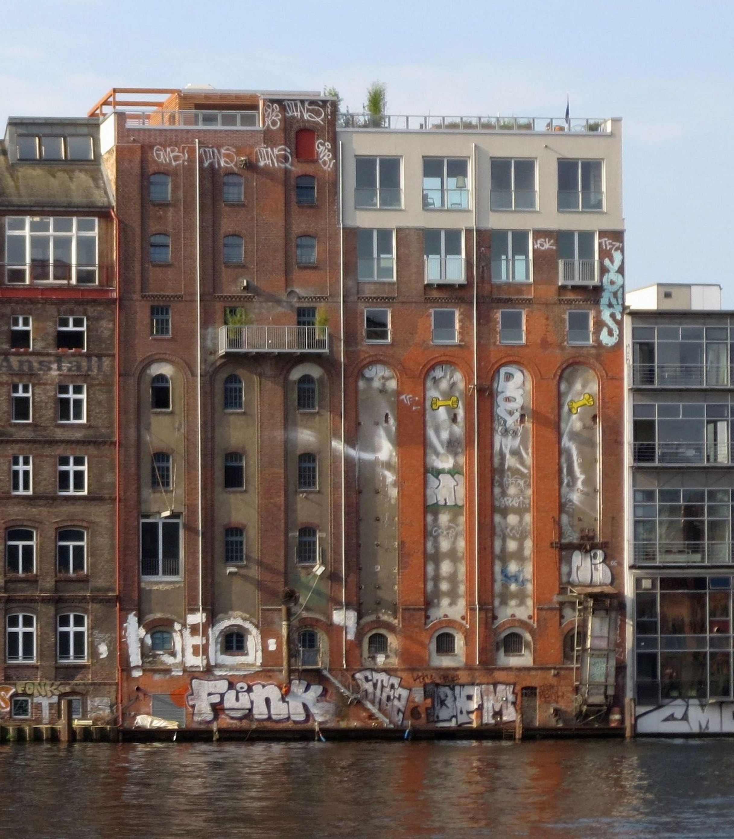 Riverside front of the former Viktoria-Mühle at Schlesische Straße No. 38 in Berlin-Kreuzberg, here seen from Osthafen in Berlin-Friedrichshain. The complex, consisting of the residential building in the front and the mill facilities proper at the Spree side of the lot and grouped around two inner courtyards, was built from 1890 to 1896 and from 1897 to 1907 by Heinrich Ellrott and C. Müller. It has been designated as a cultural heritage monument.